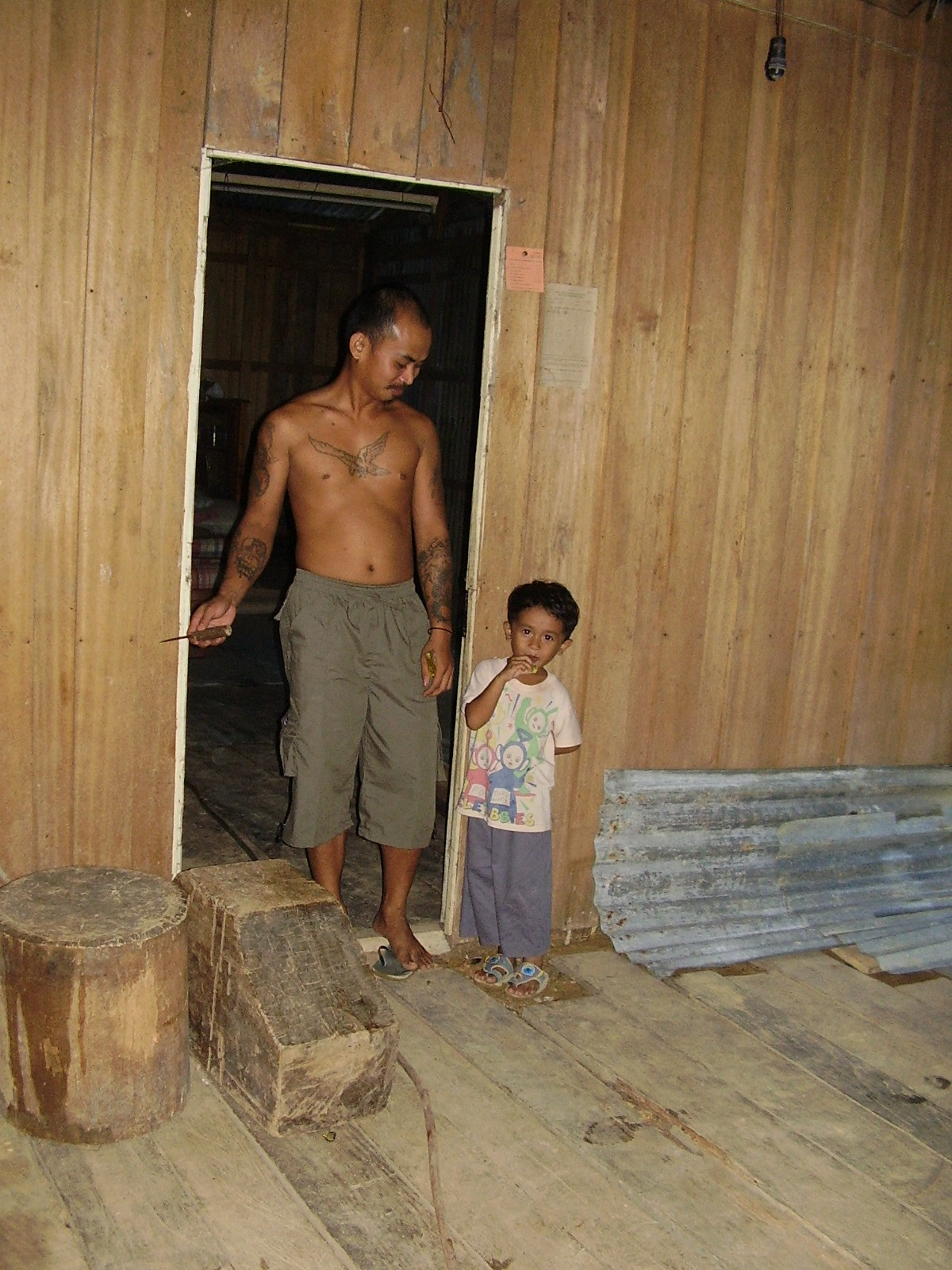 A picture of my cousin.